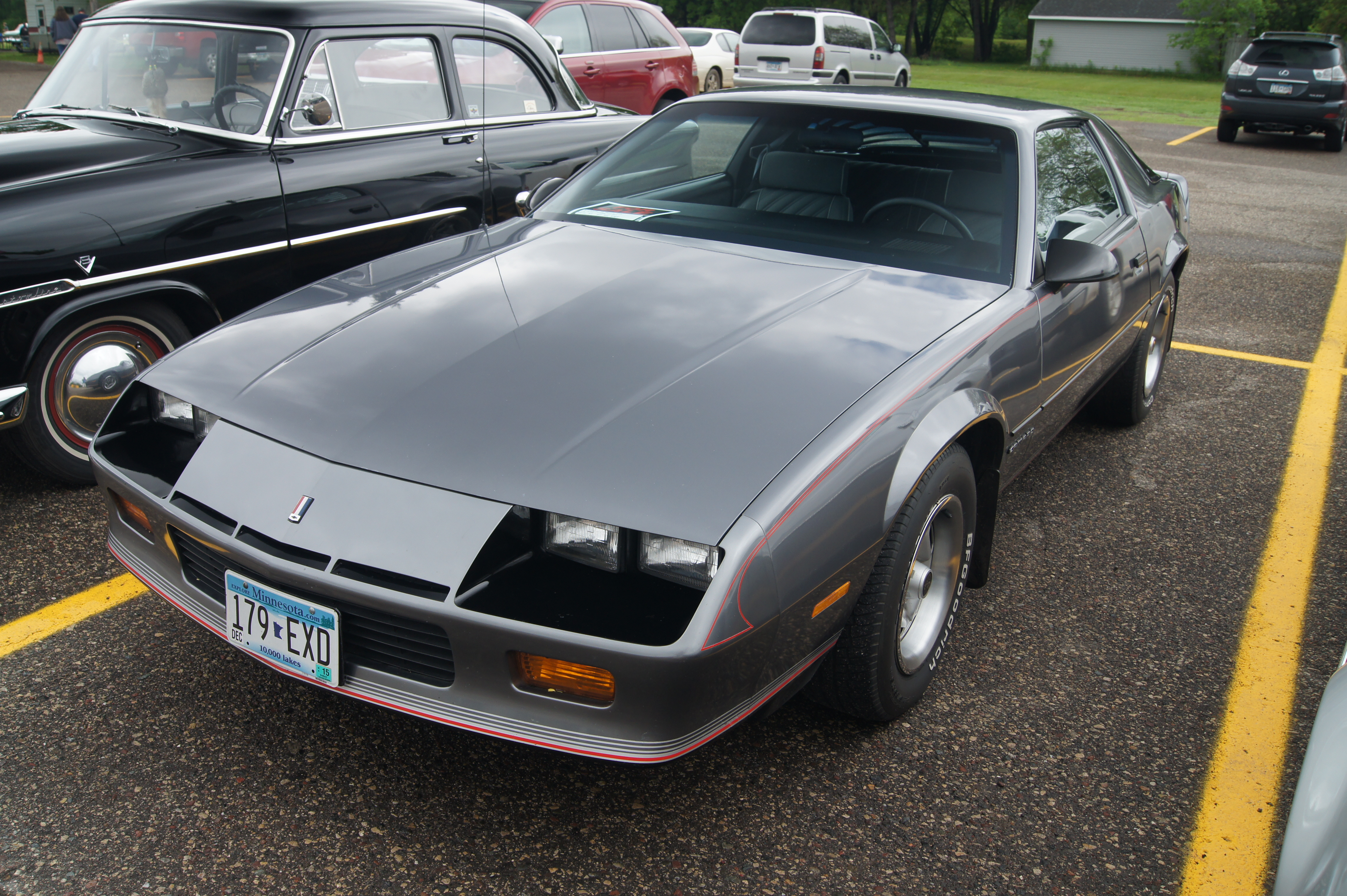 North Star Studeb@ker Drivers Club 41st Annual Car Show Memorial Day 2015 Blacksmith Lounge Hugo, Minnesota Click here for more car pictures at my Flickr site.